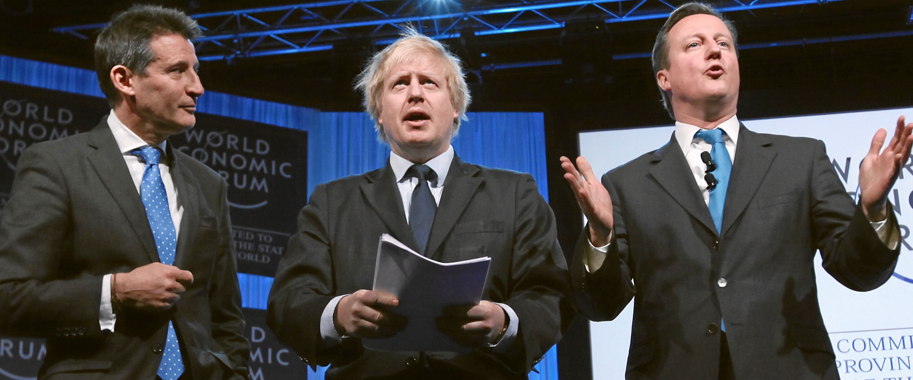 DAVOS/SWITZERLAND, 26JAN12 - Lord Coe(FLTR), Chair, London Organising Committee of the 2012 Olympic Games and Paralympic Games (LOCOG), United Kingdom; Boris Johnson, Mayor of London, United Kingdom and David Cameron, Prime Minister of the United Kingdom captured during the session 'Special Address' at the Annual Meeting 2012 of the World Economic Forum at the congress centre in Davos, Switzerland, January 26, 2012... Copyright by World Economic Forum. by Moritz Hager